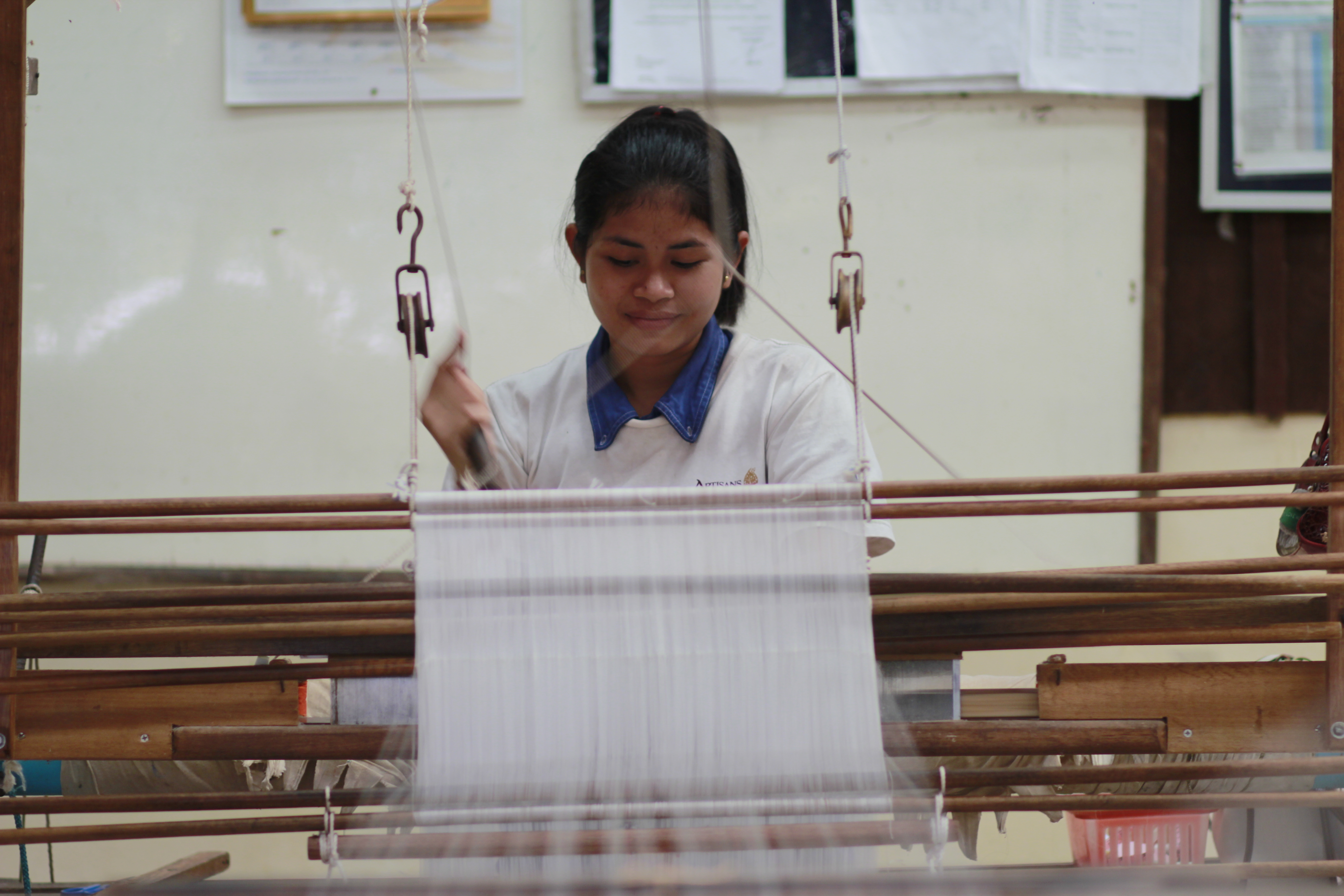 Artisane tissant de la soie de manière traditionnelle